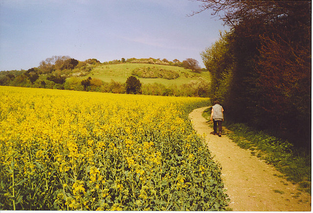 Heading Up Hollingbourne Down. On the footpath north from the village on The North Downs Way. Oilseed rape is in bloom.